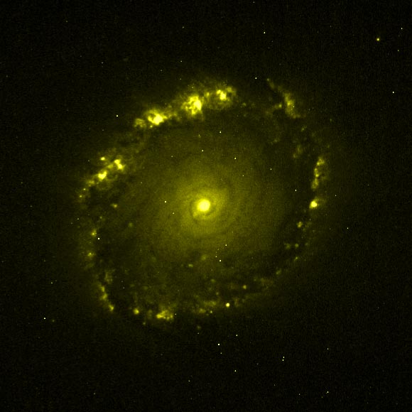 ABOUT THIS IMAGE: The yellow (6590 Å) is visible light. Image taken by HST's Wide Field and Planetary Camera 2. Object Name: NGC 1512 Image Type: Astronomical